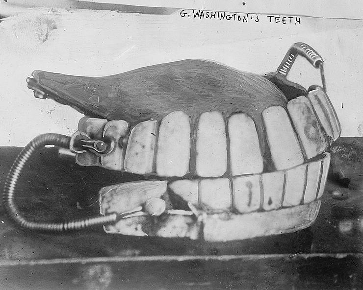 Bain News Service,, publisher. G. Washington's teeth [between 1910 and 1915] 1 negative : glass ; 5 x 7 in. or smaller. Notes: Title from unverified data provided by the Bain News Service on the negatives or caption cards. Forms part of: George Grantham Bain Collection (Library of Congress). Format: Glass negatives. Repository: Library of Congress, Prints and Photographs Division, Washington, D.C. 20540 USA, General information about the Bain Collection is available at Persistent URL: Call Number: LC-B2- 2241-4